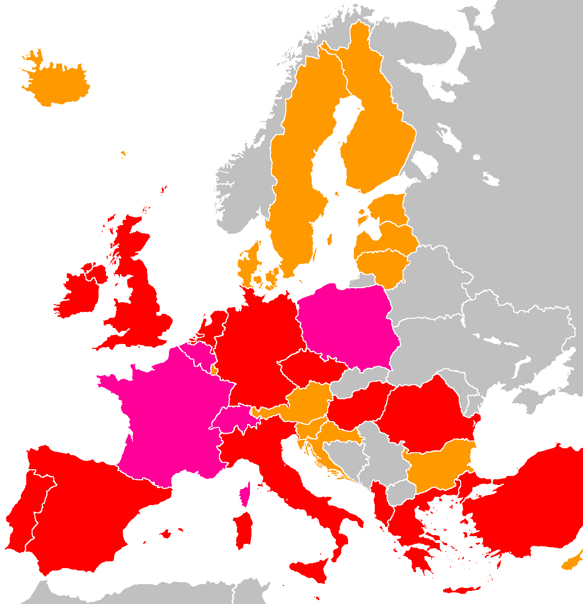 Historical map of Vodafone's presence in European countries circa 2006.